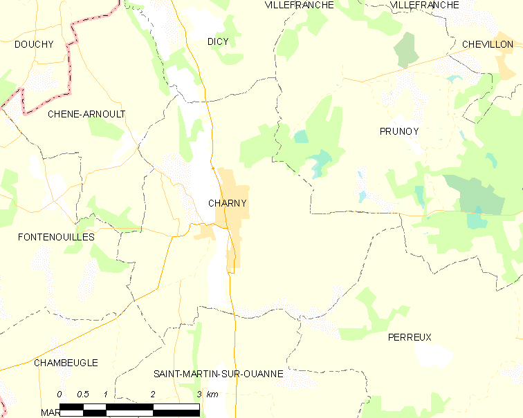 Map of French municipality Charny